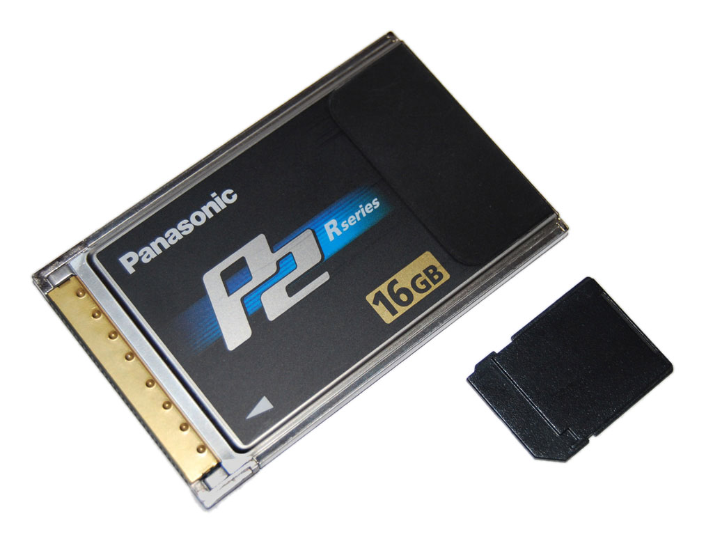 A 16 GB Panasonic P2 card (for comparison: SD card)